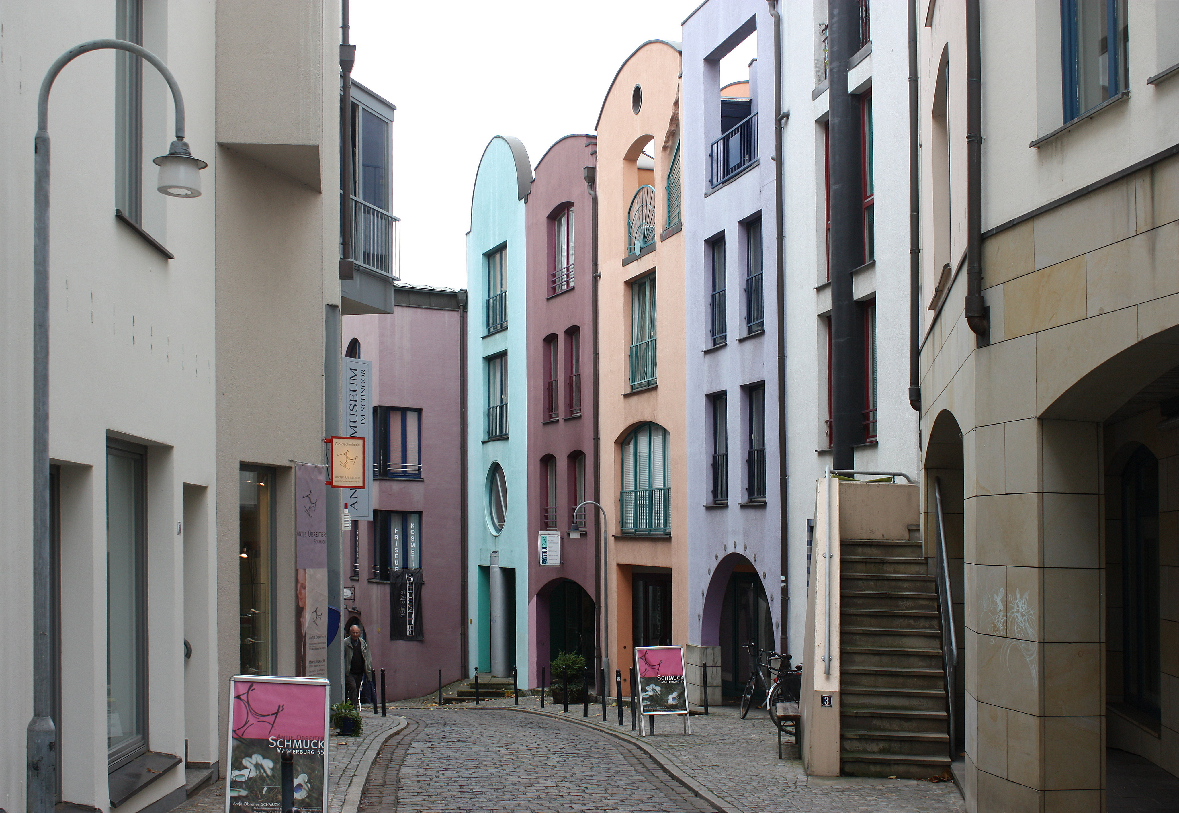 Bremen, the street "Marterburg" in the Schnoor district